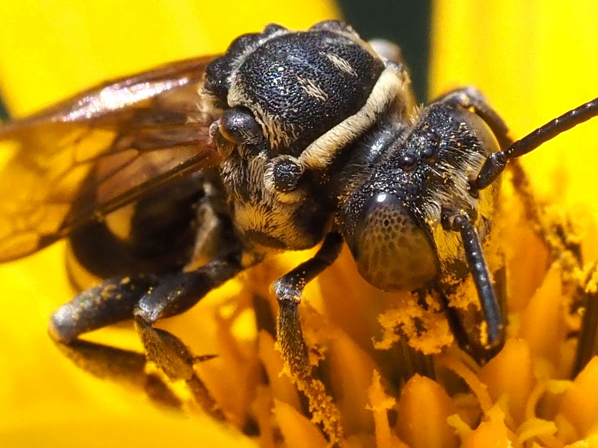 Lunate Longhorn Cuckoo Bee showing smiley face pattern on thorax Naperville, USA